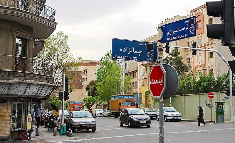 Jamalzadeh Street